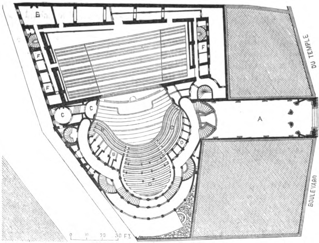 Floor plan of the Théâtre Historique in Paris, built in 1846. Labels: A – Vestible, forming the entrance; over it, on the first floor, a saloon. B – Dress-circle. C – Formerly the box of the Duke of Montpensier, and circular adjoining saloon. D – The upper boxes and one of the galleries. E – Green-room. F – Actors' rooms